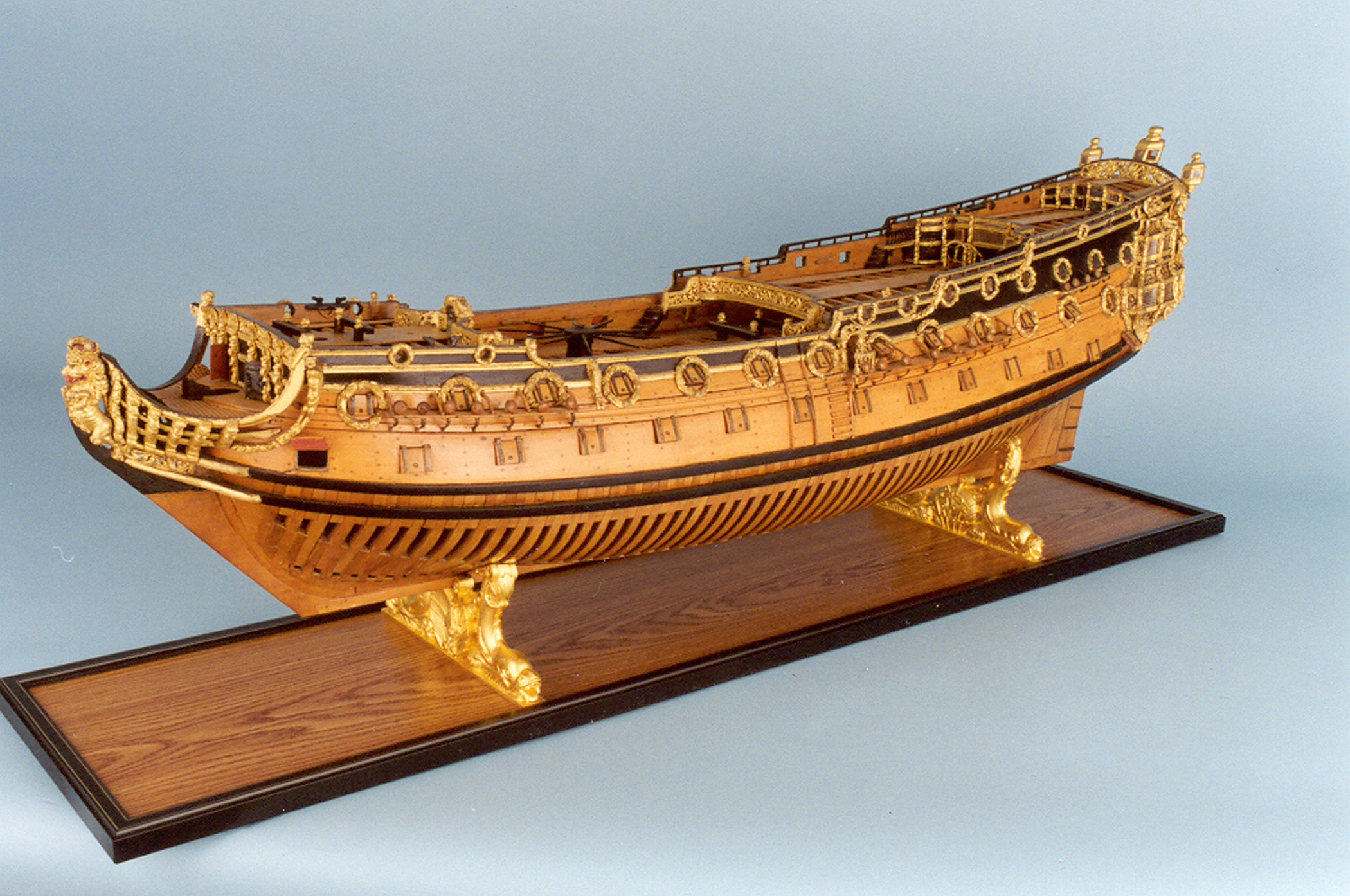 Description: HMS Sussex (80) model, third-rate, port broadside, high resolution